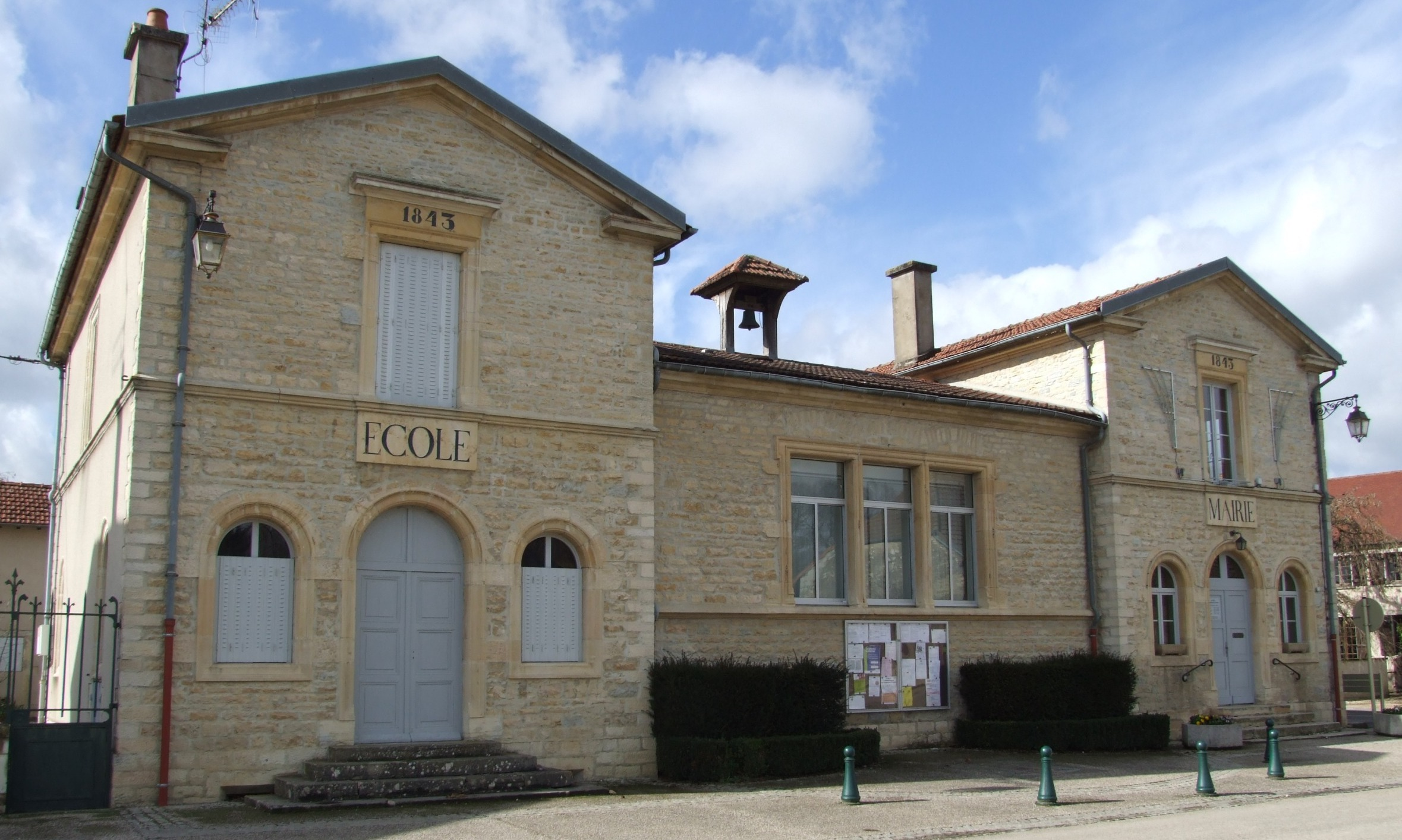 Longecourt-en-Plaine, Burgundy, FRANCE